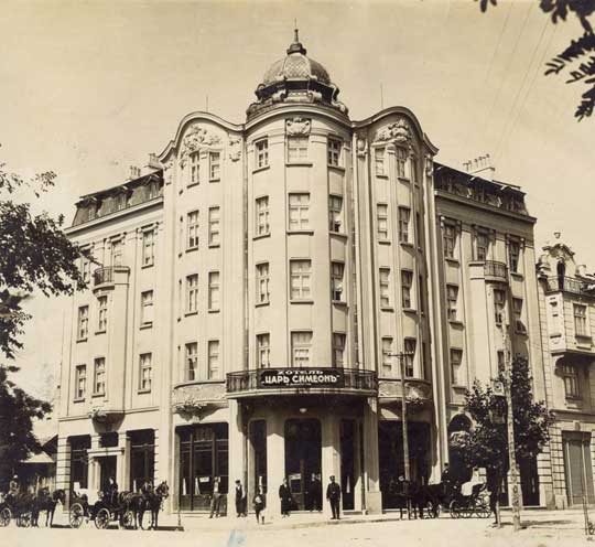 Tsar Simeon Hotel, Plovdiv